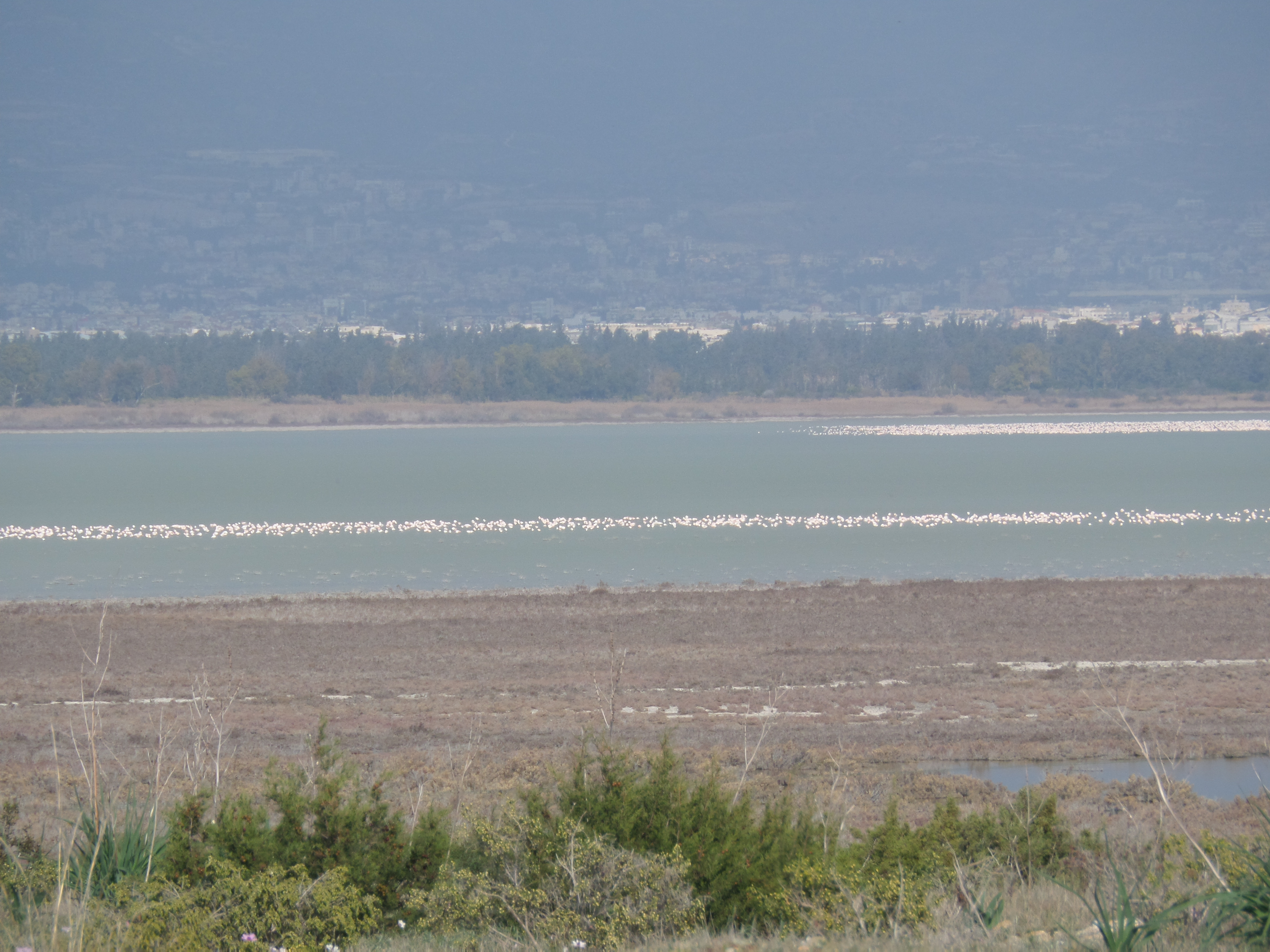 Limassol Salt Lake